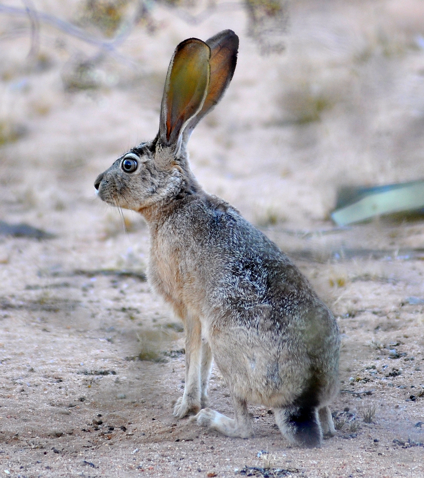 Black-tailed Jackrabbit Sitting in the Mohave desert